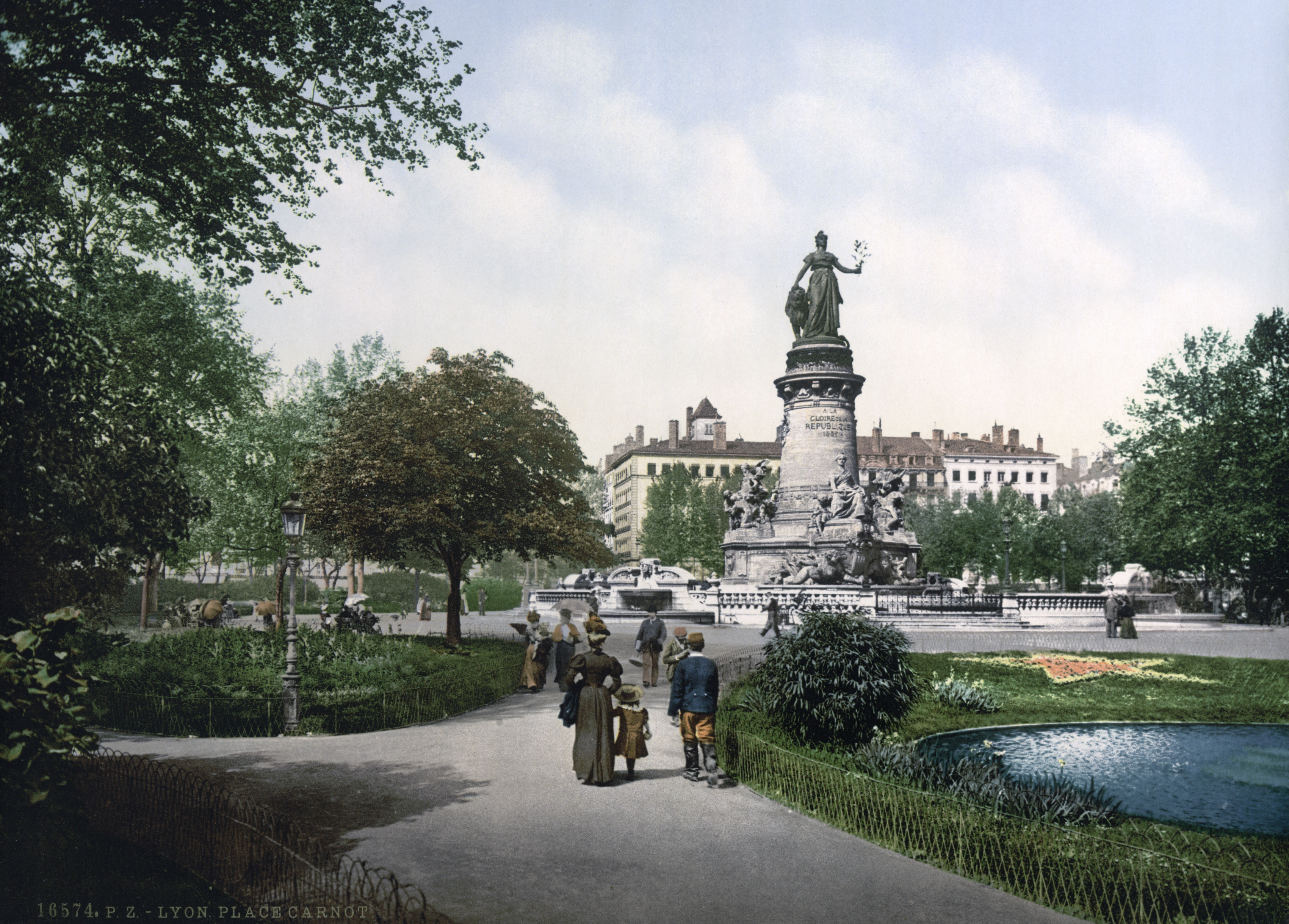 Place Carnot, Lyons, France